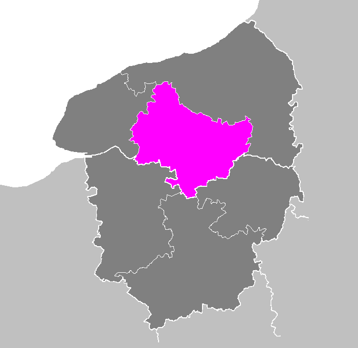 Maps of arrondissements and cantons of France: Arrondissement de Rouen.PNG